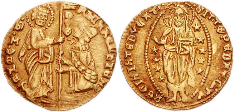 ITALY, Venice. Michele Steno. 1400-1413. AV Ducato (21mm, 3.50 g, 5h). St. Mark standing right, presenting banner to kneeling Doge. left: S(anctus) M(arcus) VANET[iae] (Saint Mark of Venice) right: MICAEL STEN Christ standing facing, raising hand in benediction and holding Gospels, surrounded by elliptical halo containing nine stars. Around SIT T[ibi] XPE (Christe) DAT[us] Q[uem] T[u] REGIS ISTE DVCAT[us]